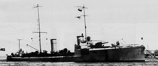 Ottoman destroyer Muavenet-i Milliye, 1912